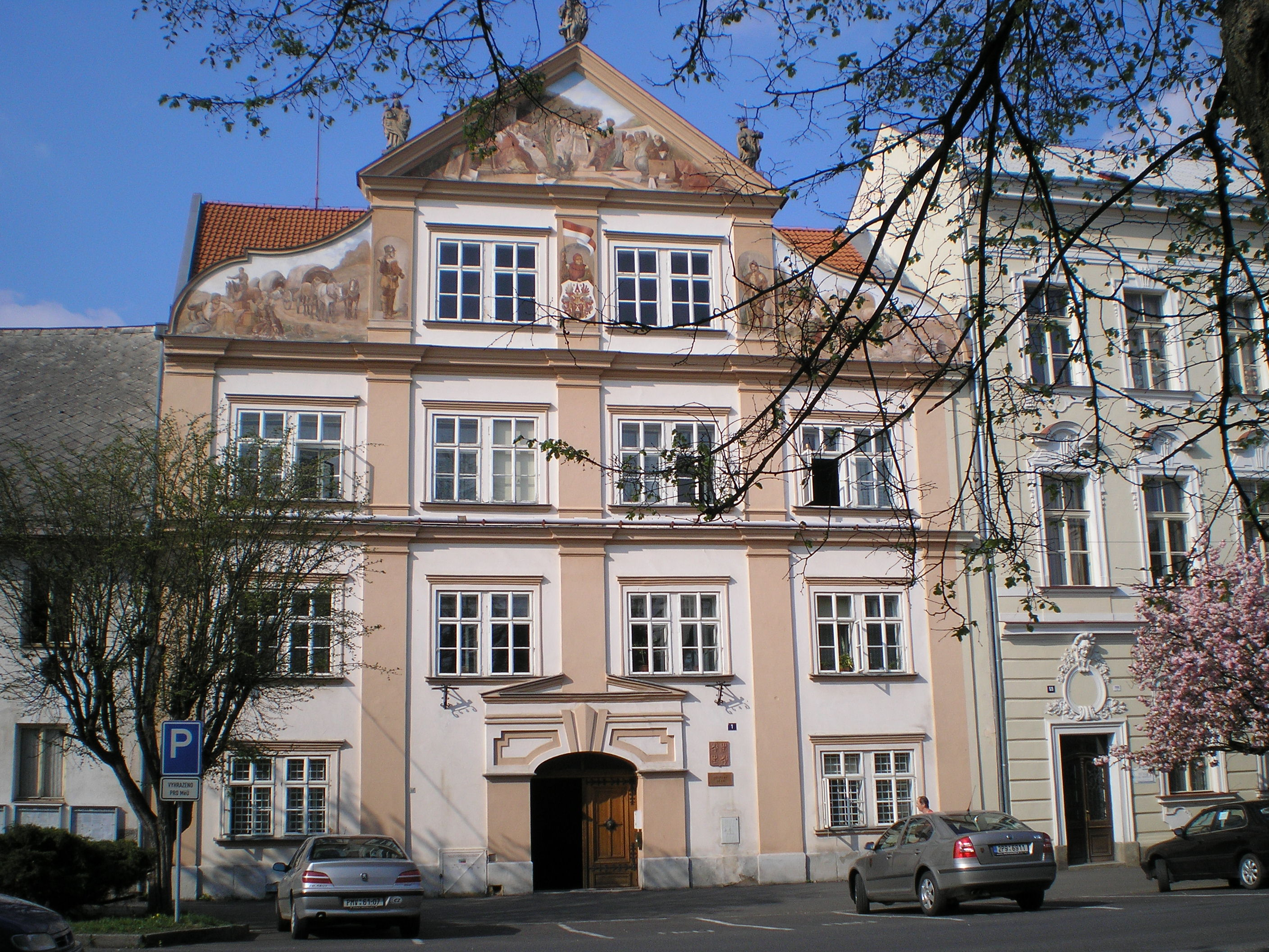 Town hall in Planá, Tachov District, Czech Republic.